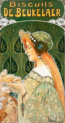 Advertisement by Privat-Livemont